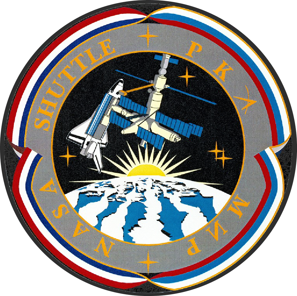 The official NASA patch for the Shuttle-Mir Program, showing a Space Shuttle Orbiter docked to the Russian Space Station Mir, flying above a stylised Earth. The patch is bordered by the colours of the flags of Russia and the USA